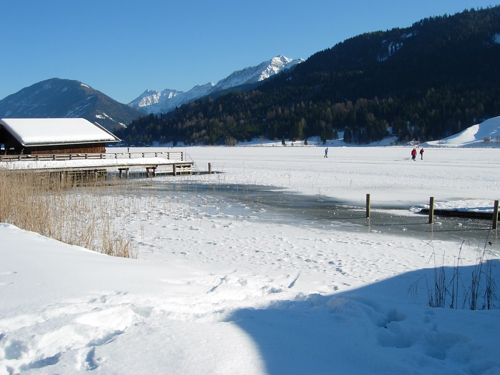 Weißensee in Carinthia in winter.